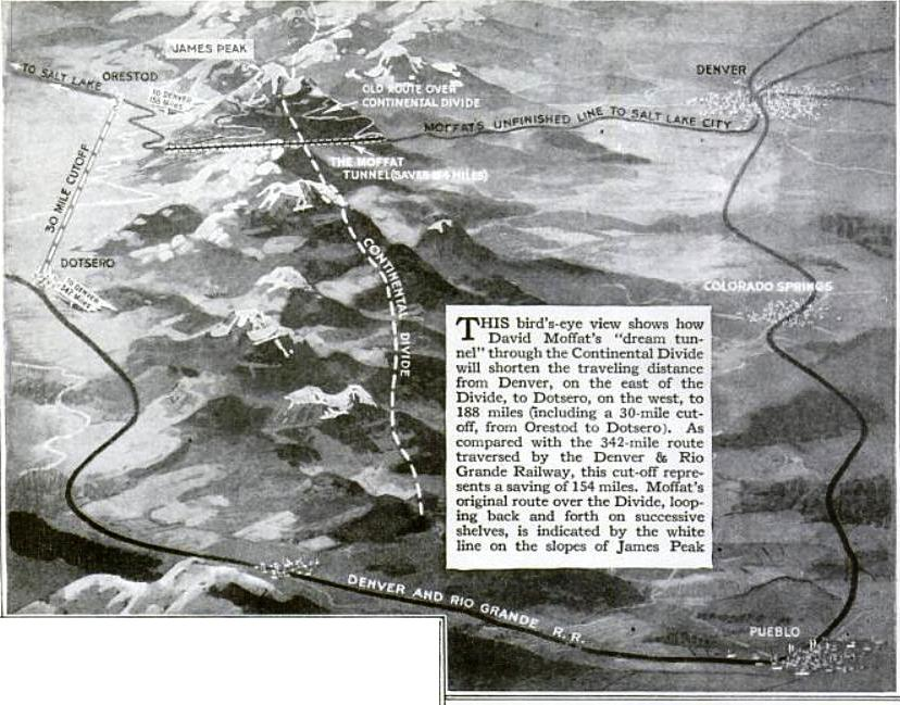 Graphic overview of the benefits from construction of the Moffat Tunnel west of Denver